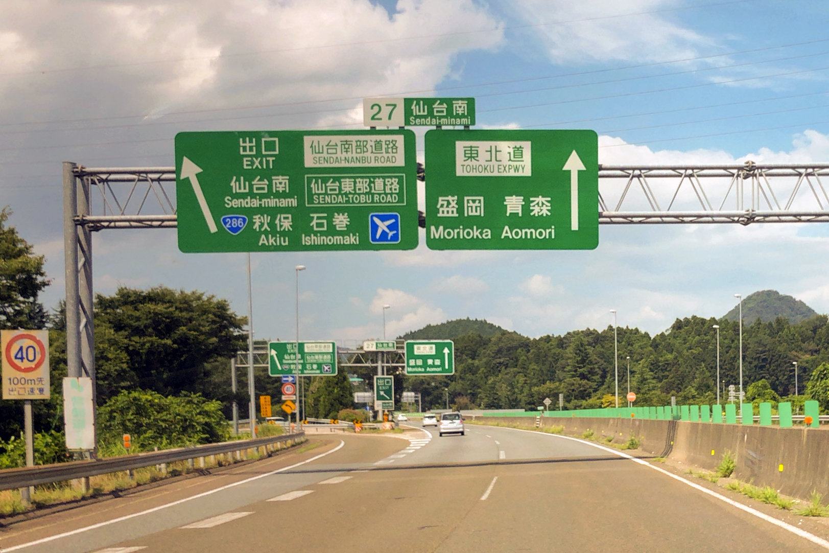 Sendai-minami Interchange on the Tohoku Expressway northbound line